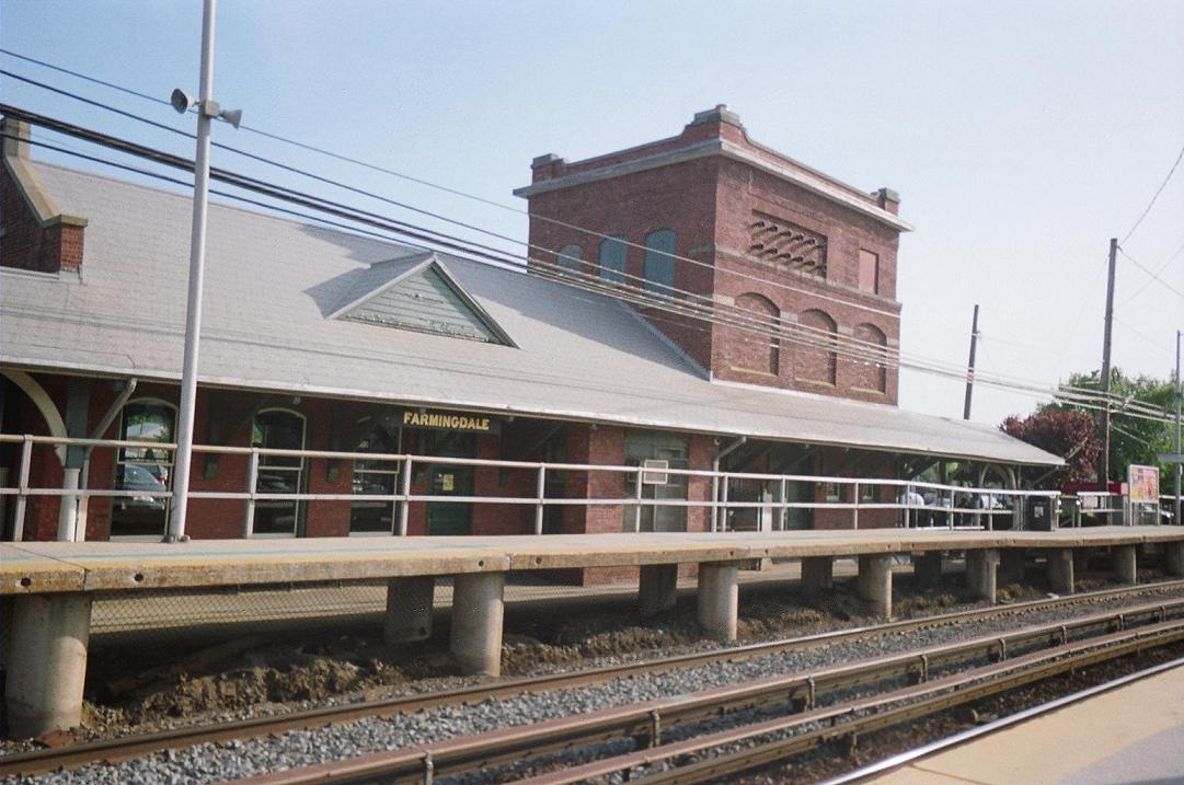 View of the historic Farmingdale (LIRR station) across from the Westbound Platform. Not including the clock tower, Historical marker, pedestrian tunnel, and other features.